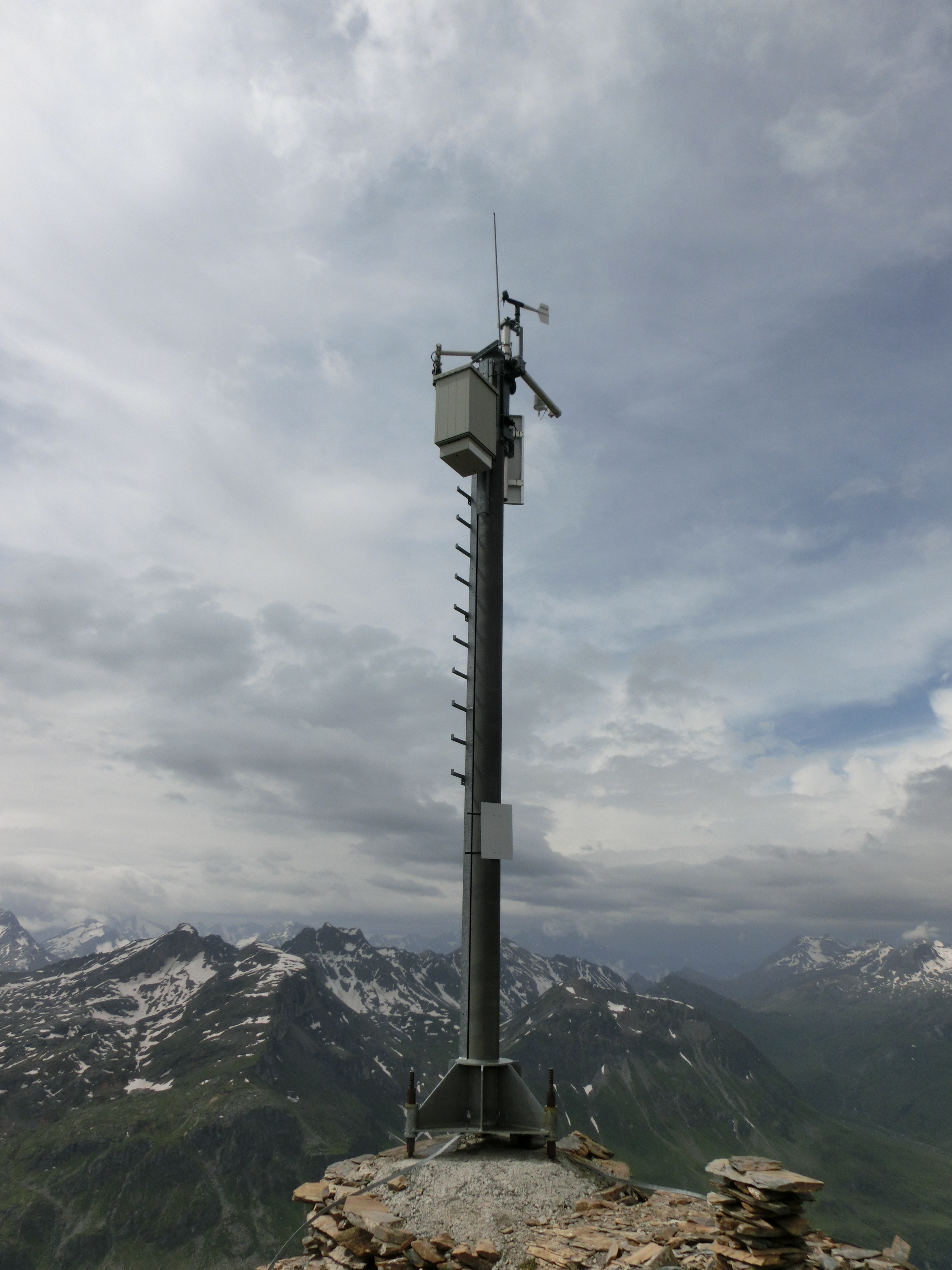 Weather station on Piz Bardella, Bivio, Grison, Switzerland